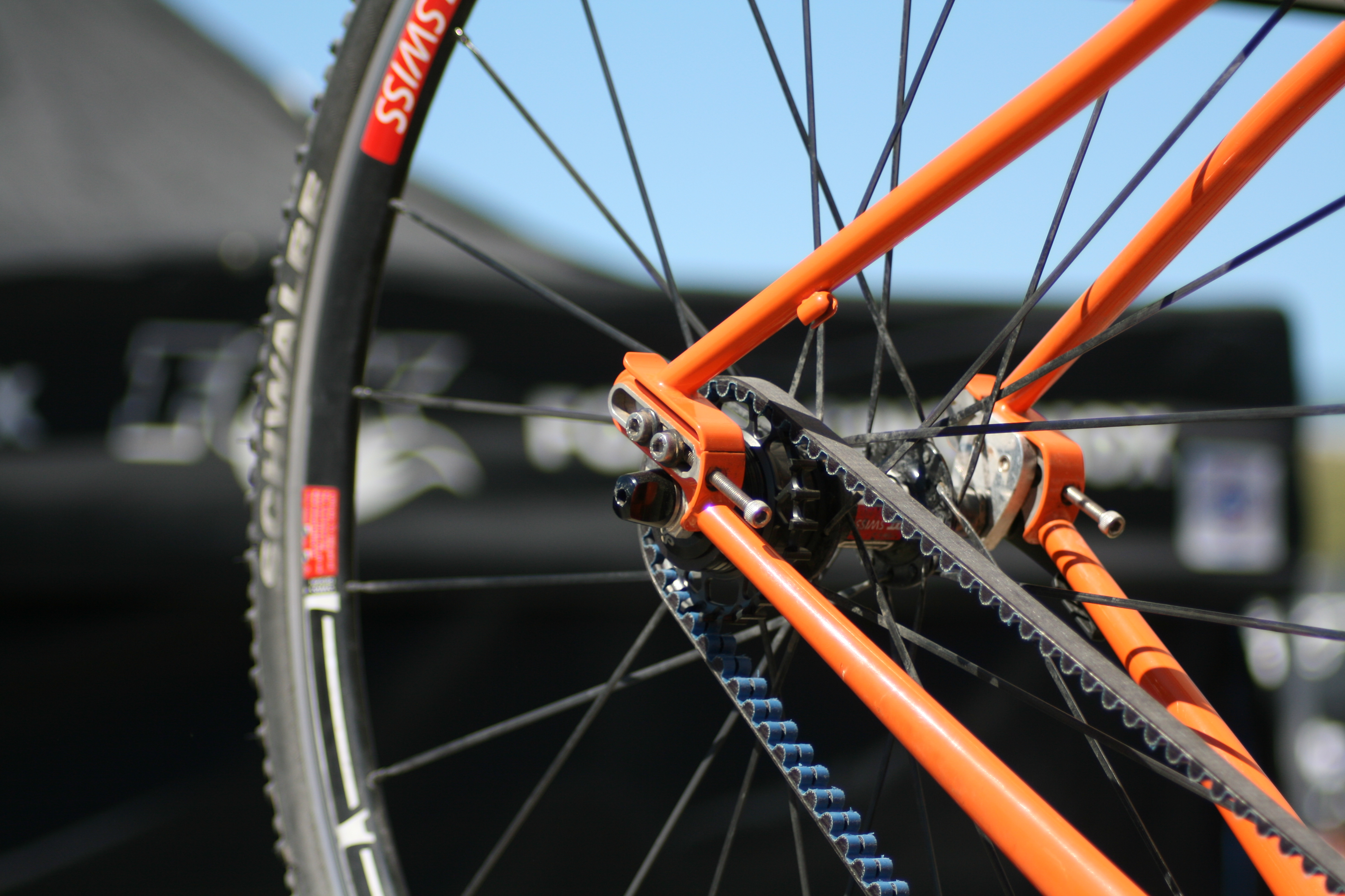 Spot Brand singlespeeds and Gates belt drive